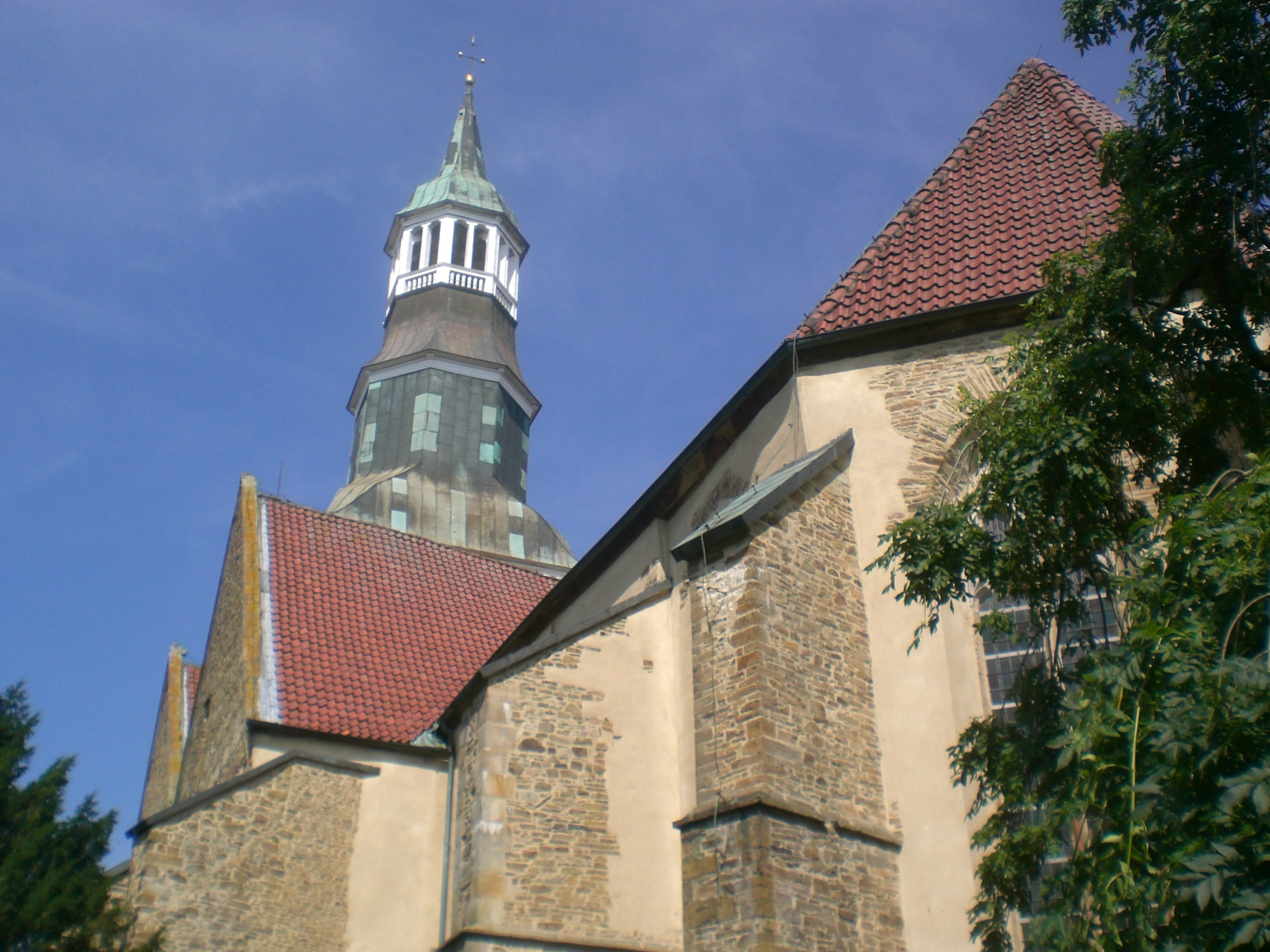 The lutheran church in Quakenbrück, Lower Saxony, Germany